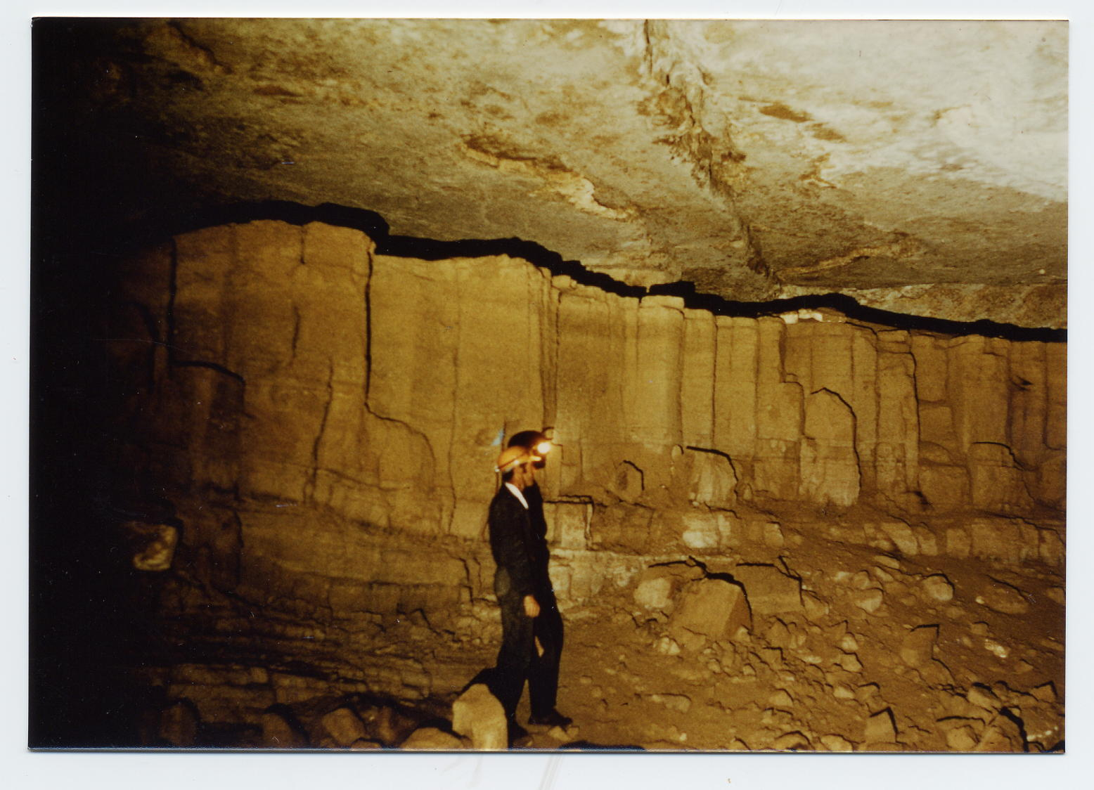 Mudwall Passage, Sof Omar Caves, Ethopia (photo by Dave Catlin)